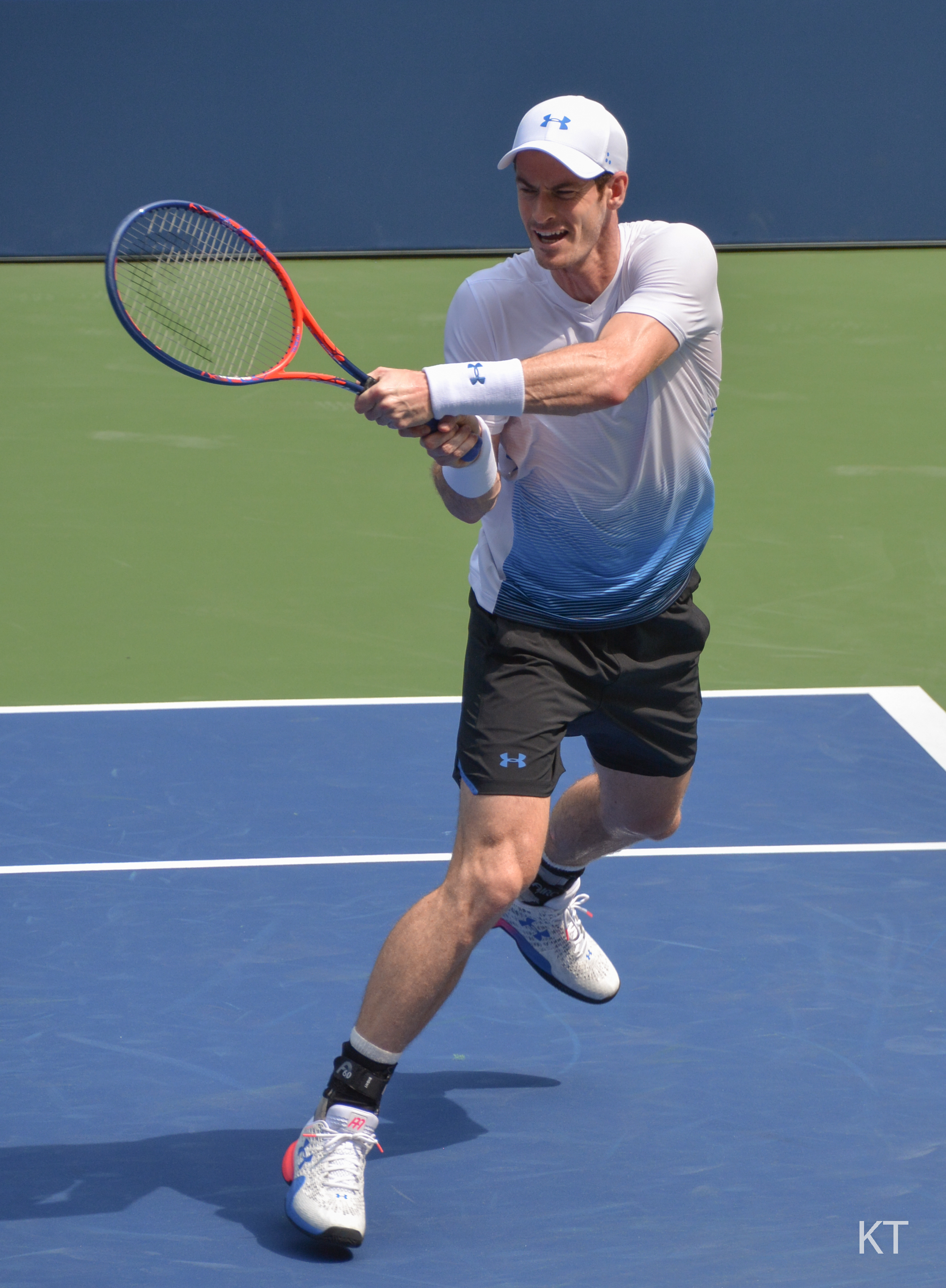 Andy Murray v James Duckworth on Louis Armstrong Stadium. Day 1 of US Open 2018.